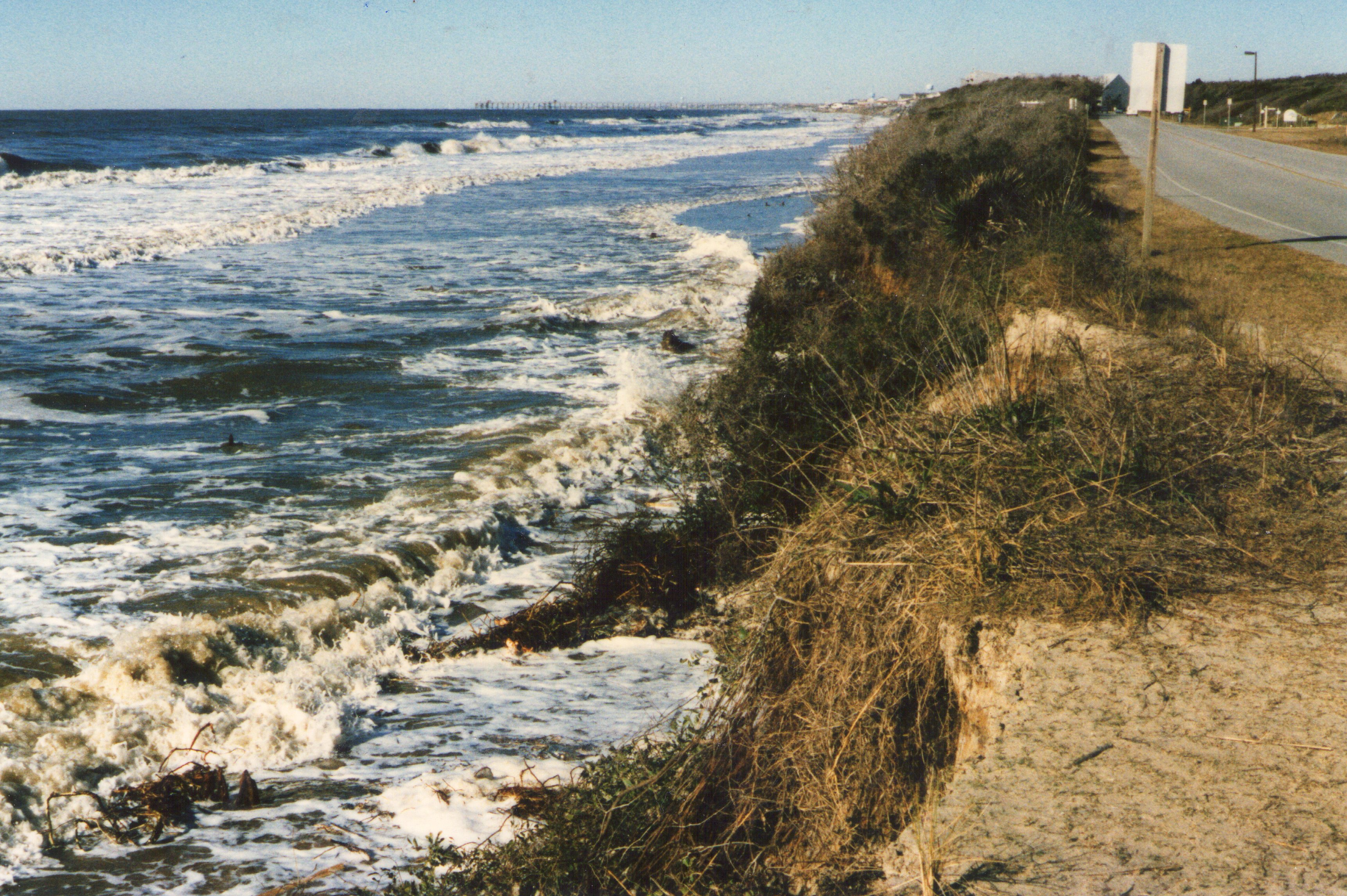 Atlantic Ocean lapping against Caswell Beach Rd.